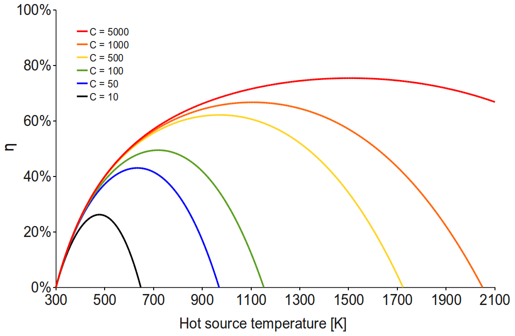 Maximum solar-to-work efficiency for a simplified solar receiver relative to the temperature for various concentrations